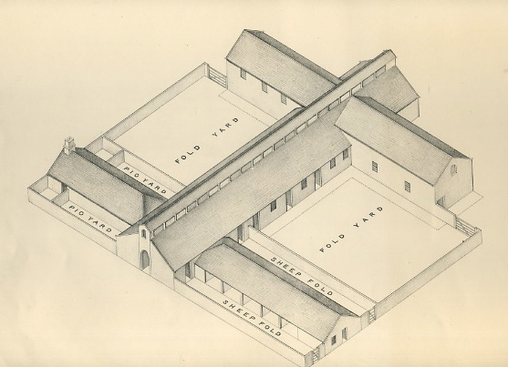 Poundleys Cottage Architecture . View of Farm Buildings